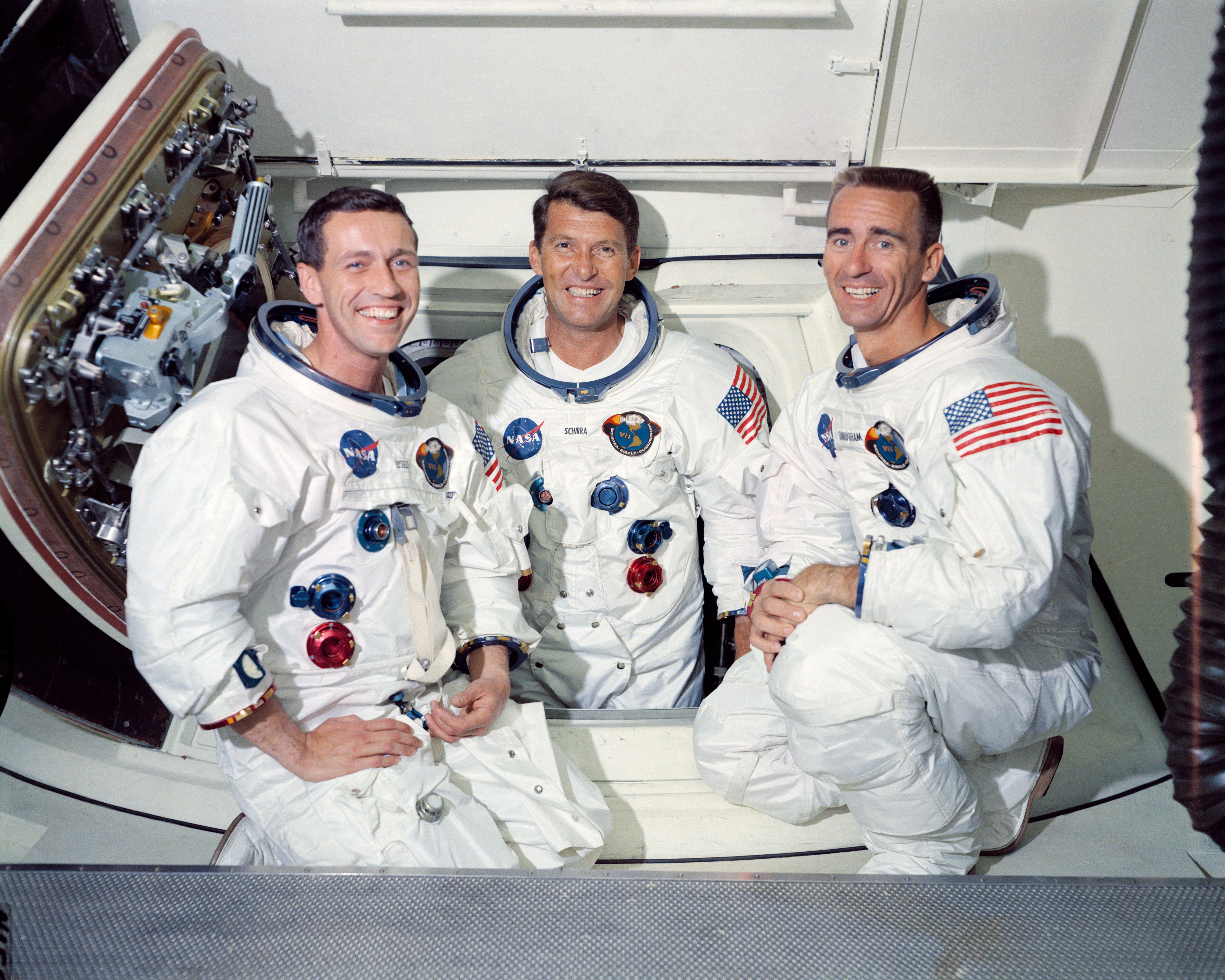 The prime crew of the first manned Apollo space mission from left to right are: Command Module pilot, Don F. Eisele, Commander, Walter M. Schirra Jr. and Lunar Module pilot, Walter Cunningham. The photograph was taken inside the White Room which is attached to the crew access arm. From here astronauts ingress and egress the spacecraft. Commander Wally Schirra Jr. is seen inside the opening of the Command Module's main hatch.